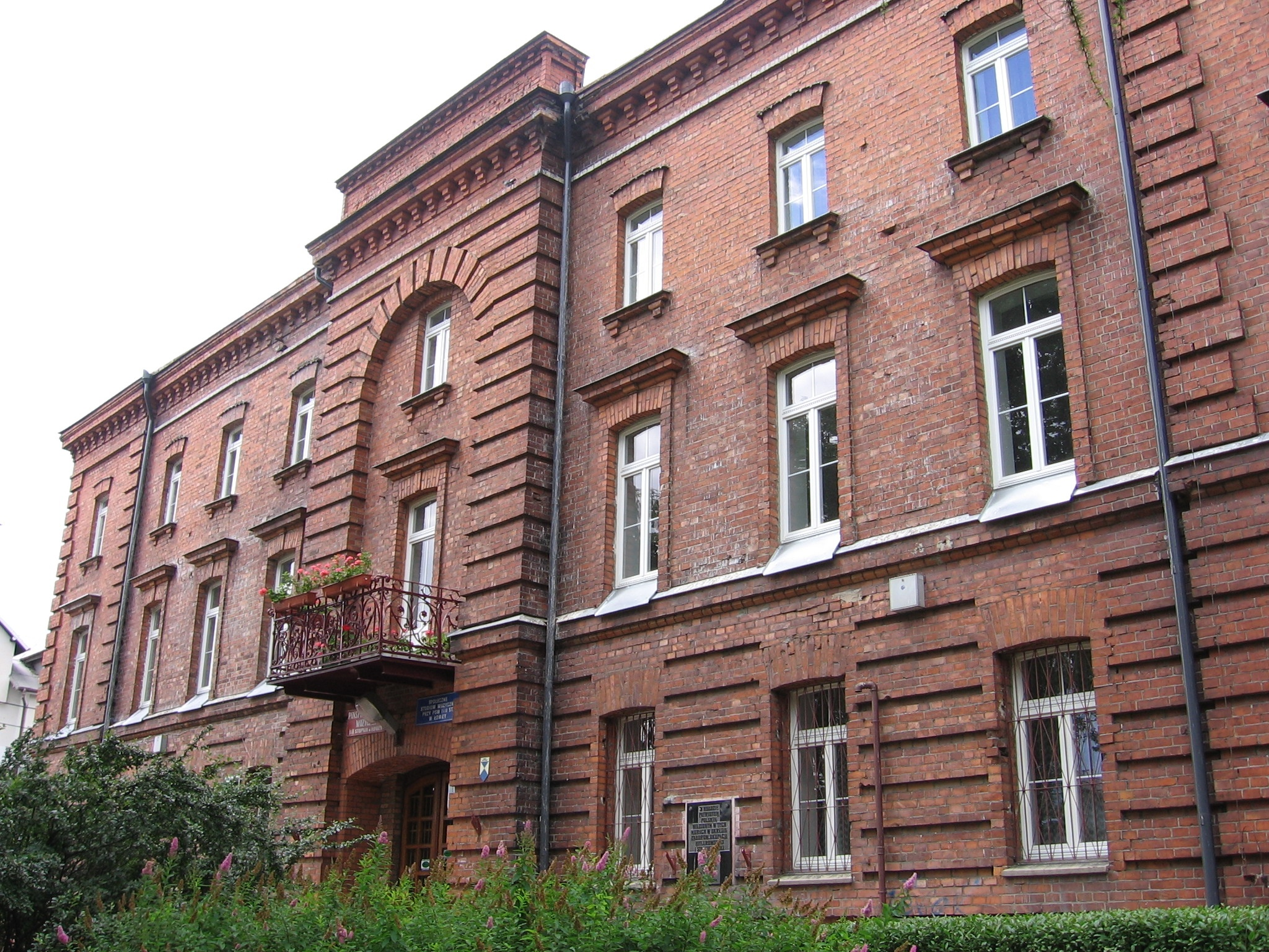 Building of former Gubernial Prison in Łomża.